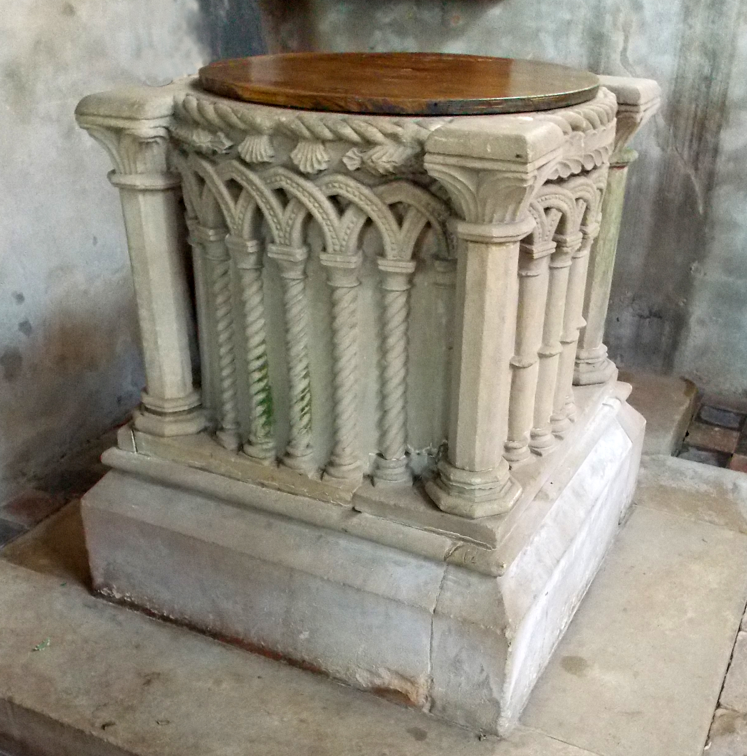 12th-century baptismal font in the parish church of St Nicholas, Fulbeck, Lincolnshire